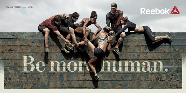 Reebok's 2015 Brand Campaign - Be More Human